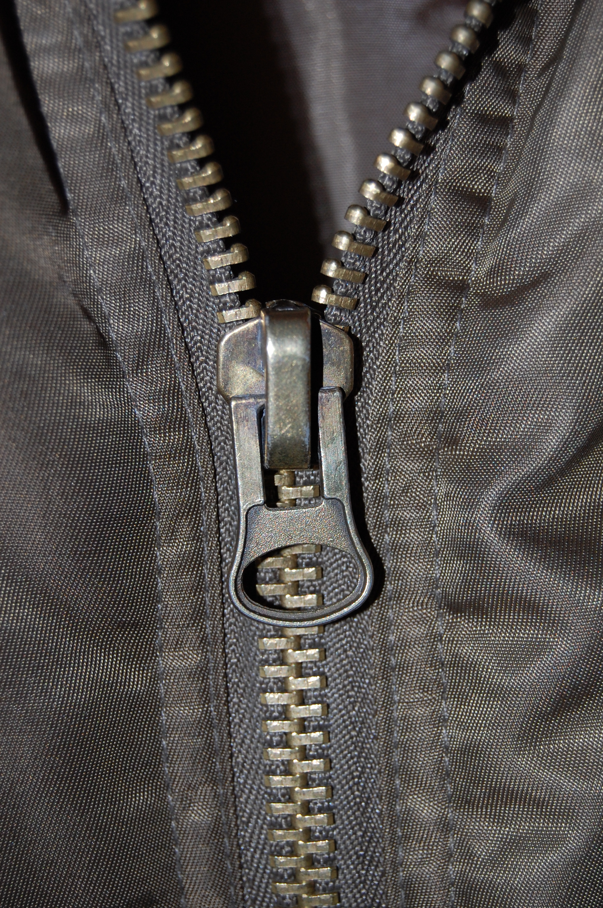 Metalzipper